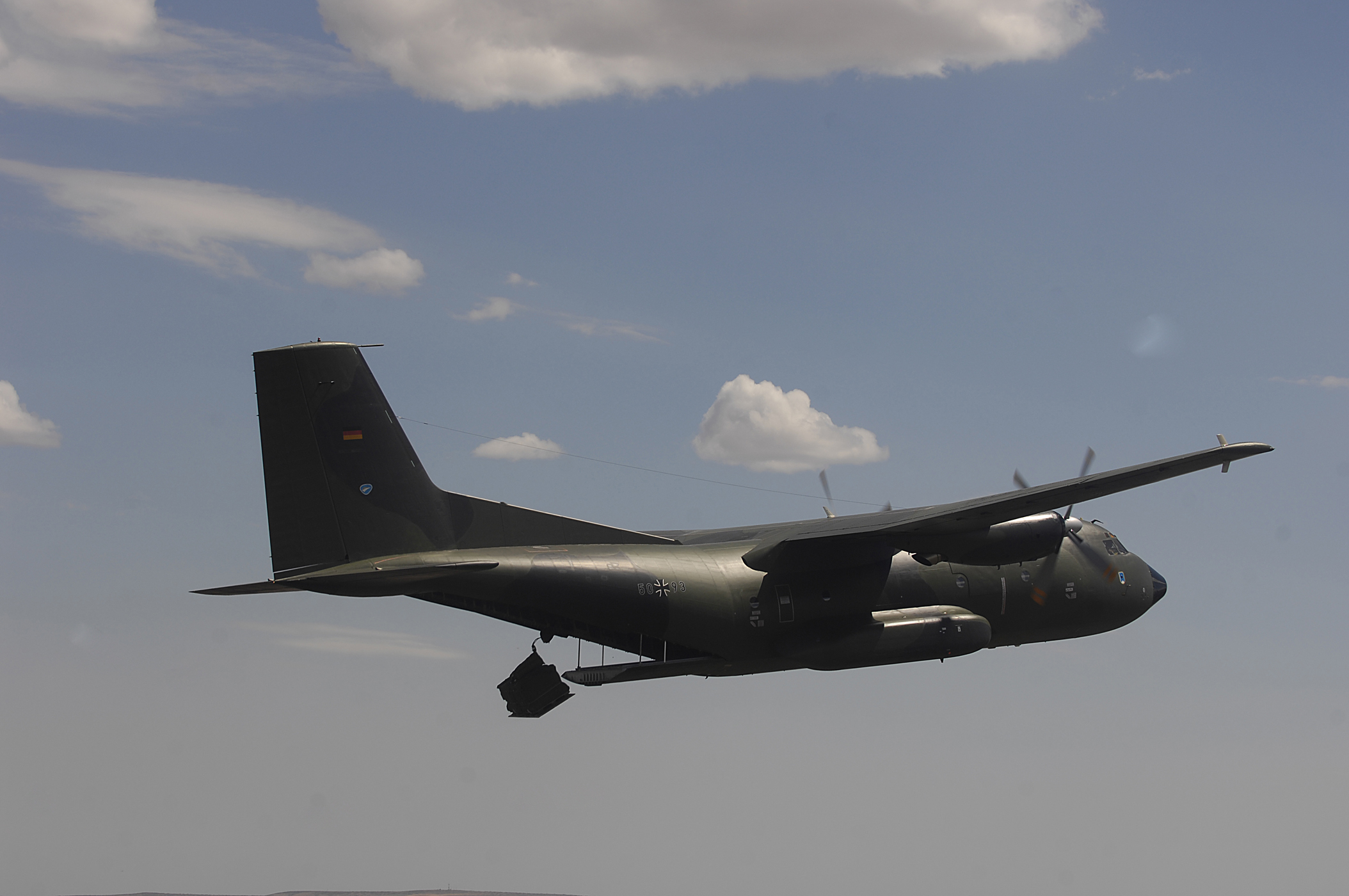 A German Air Force Transall C-160 (s/n 50+93) of the Lufttransportgeschwader 61 (LTG 61) (61st Air Transport Wing) competes in the air drop competition of the "Air Mobility Rodeo 2007" exercise by dropping pallets on targets July 23 near Moses Lake, Washington (USA), on 23 July 2007.